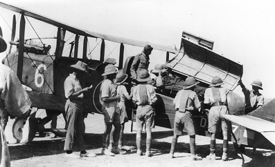 This image is a digitized photograph of a Z Force DH9 being operated in the air ambulance role.